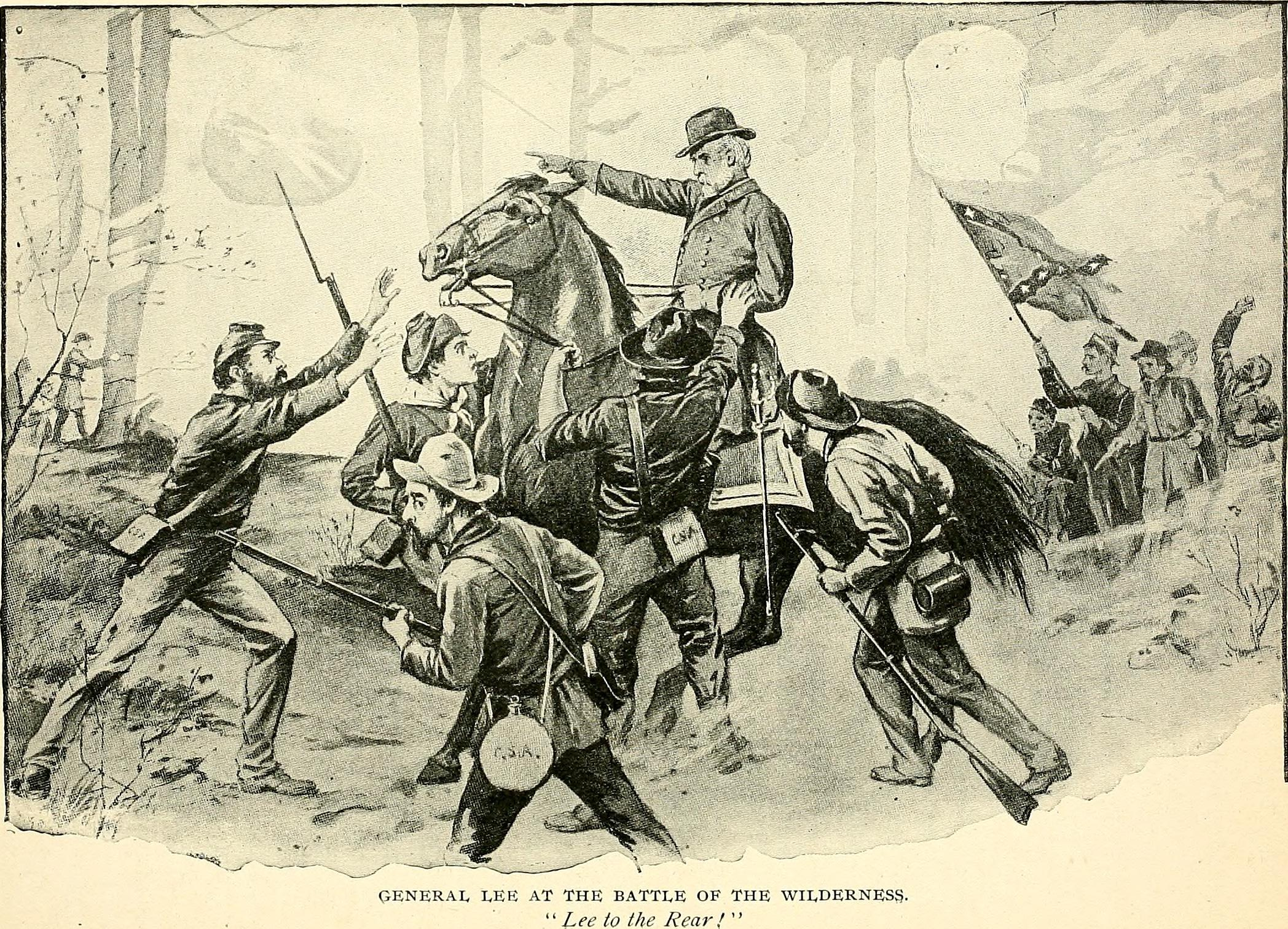 Title: Gen. Robert Edward Lee; soldier, citizen, and Christian patriot Year: 1897 (1890s) Authors: Brock, R. A. (Robert Alonzo), 1839-1914 Subjects: Lee, Robert E. (Robert Edward), 1807-1870 Publisher: Richmond, Va., B. F. Johnson Publishing Co Text Appearing Before Image: GENERAL LEE IN 1S66. Text Appearing After Image: SOLDIER, CITIZEN AND CHRISTIAN PATRIOT. 319 demoralization such as I had never seen before, and yet the enddid not come. While our cavalry was pushing the fleeing forcesnorthward the infantry was making a short cut across country tointercept them if they succeeded in turning south. There hadbeen a good deal of talking of bagging for several years, but nowit really seemed as if the net was spread and the game could notescape. General Ewell recognized the futility of further fighting,and wanted General Sheridan to send to General Lee a flag oftruce and demand his surrender, which Sheridan did not dobecause he probably thought overtures should come from the otherside. Besides, General Grant was in chief command, and he couldtake the initiative if he deemed it proper. But there was to bestill more fighting at High Bridge over the Appomattox River,where the Union loss was 1041, and at Farmville, where our losswas 655. The Confederate losses were not reported. The immensebridge near Farmvil